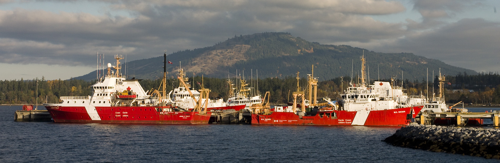 CCGS John P. Tully and CCGS W. E. Ricker at Institute of Ocean Sciences, Patricia bay, Sidney BC. CCGS John P. Tully IMO Number: 8320420 MMSI Number: 316114000 Callsign: CG2958 Length: 70 m Beam: 14 m CCGS W. E. Ricker IMO Number: 7809364 MMSI Number: 316116000 Callsign: CG2965 Length: 58 m Beam: 10 m